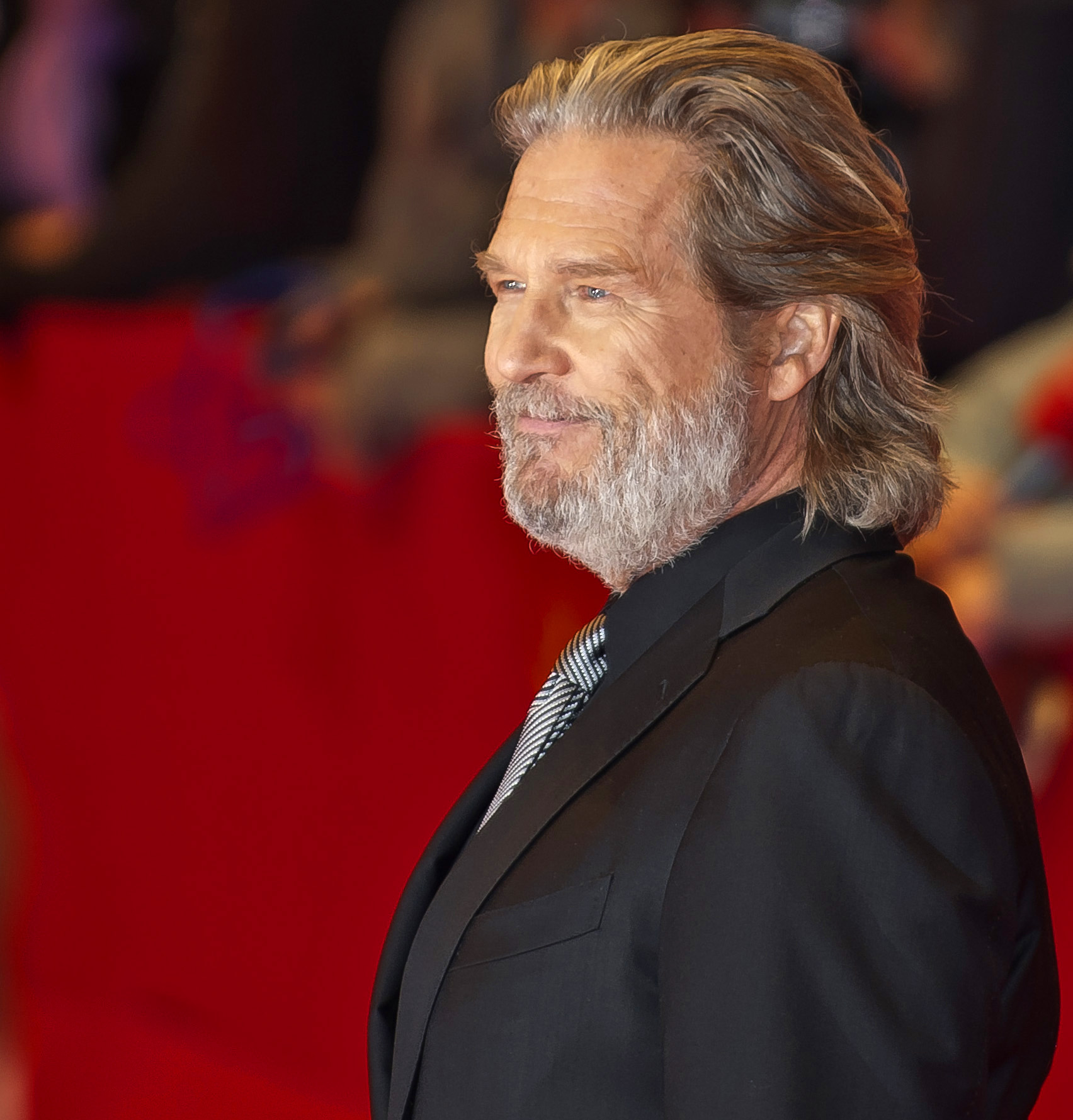 Jeff Bridges at the Premiere of True Grit at the Berlin Film Festival 2011